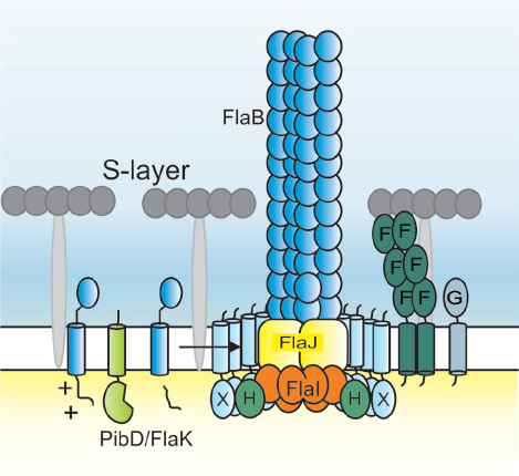 (CC-BY text by authors) Current model of the crenarchaeal archaellum. After the pre-archaellin has been processed by PibD/FlaK, the motor complex assembles the filament. The motor complex is formed by the ring-forming scaffold protein FlaX in which FlaH and FlaI interact most probably with the integral membrane protein FlaJ. The dimeric soluble domain of FlaF interacts with the S-layer. FlaG most probably has a similar function as FlaF as its soluble domain has homologies to the one from FlaF.